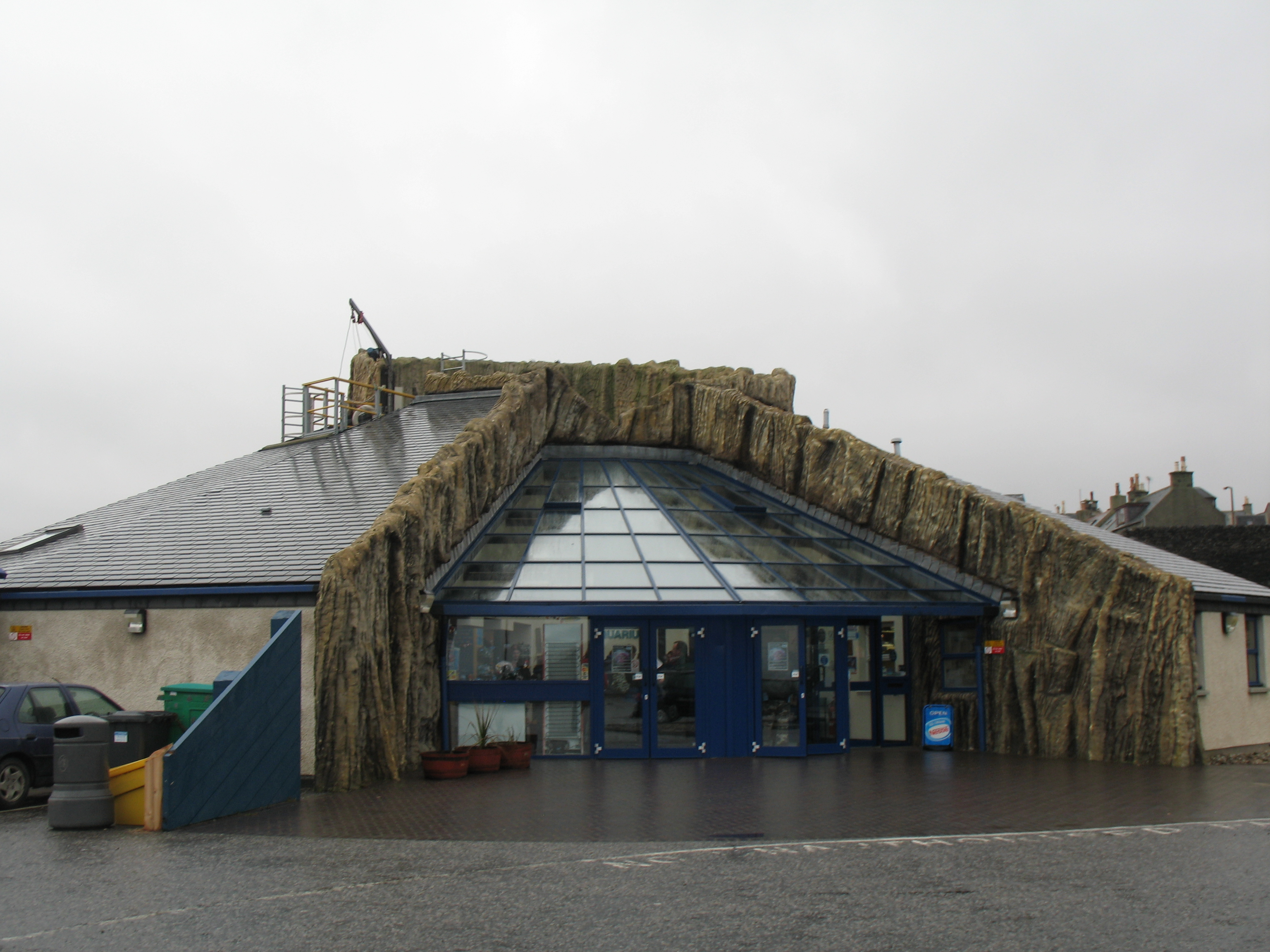 The big cod tank is the full height of the building. Don't miss the video! See where this picture was taken. [?]